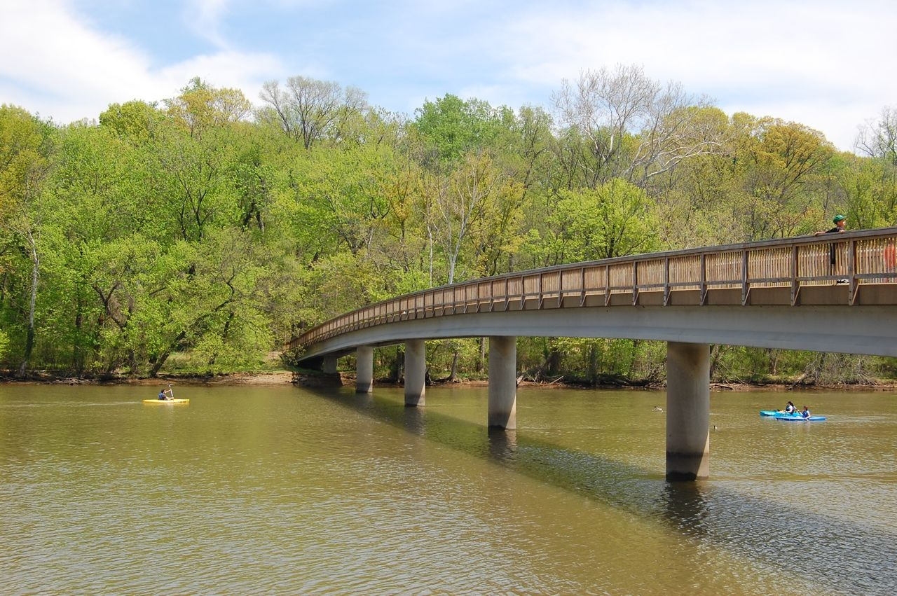 The footbridge connecting Theodore Roosevelt Island to Virginia.